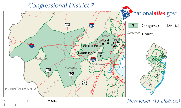 NJ's 7th US Congressional District. from Category:Congressional districts of New Jersey Category:New Jersey maps